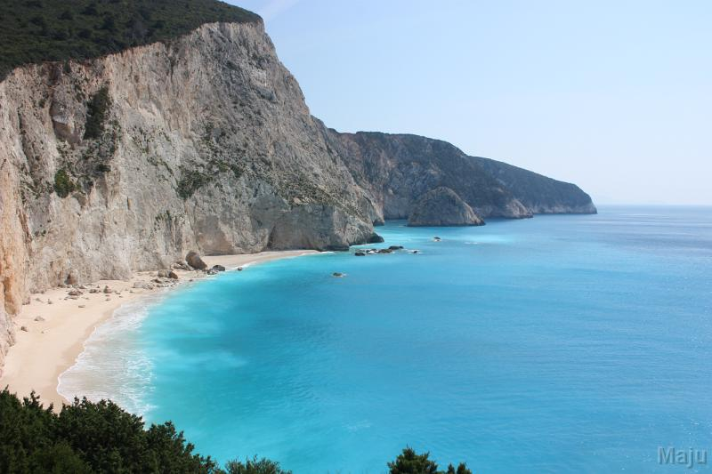 Lefkas, Greece